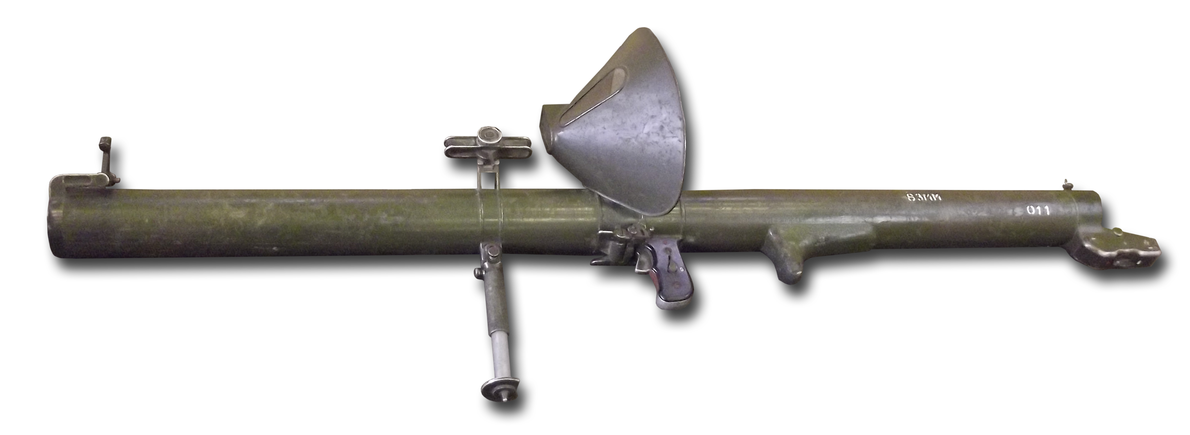 Mecar Blindicide RL-83 with Belgian faceshield and monopod extended